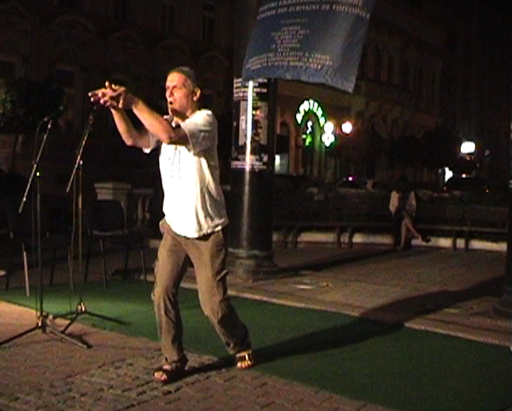 2008: "tr:", performative poem